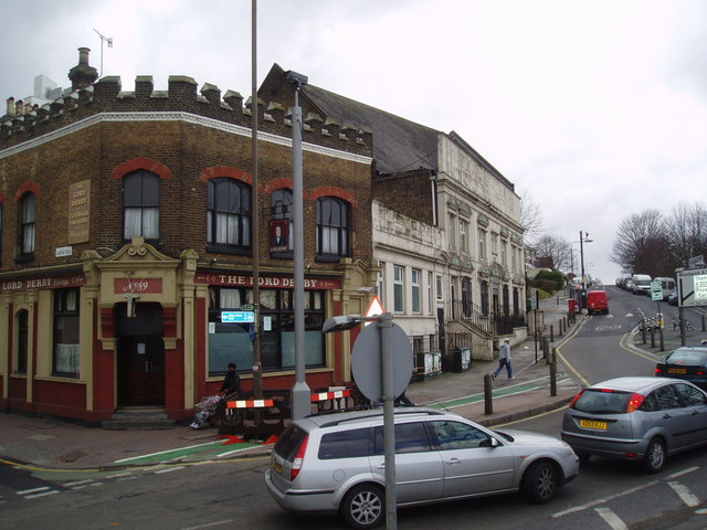 Street scene in Plumstead. This most interesting photograph conveys something of the atmosphere of this gridsquare: with a varied and lively multi-ethnic population, it is mainly residential with some open space near the centre of the square. Here we see the Lord Derby public house, behind which the white building is the Plumstead Radical Club. To the right just out of the picture is Plumstead station, while the long bus route 53 from Central London also terminates here.